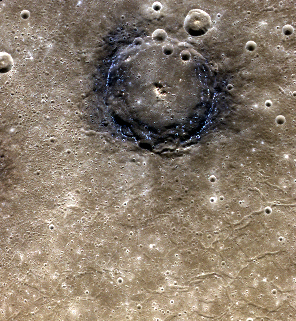 For as long as 70 years, a visitor to the original grave site of Edgar Allan Poe left a tribute in the form of roses and a bottle of cognac each January 19 (Poe's birthday). The "Poe Toaster" has not appeared since 2009, and it appears that the tradition has ended. Here we offer our own toast to the great American writer: a color view of Poe crater on Mercury. In this representation, Poe's raven-colored rim stands out from the tan volcanic plains that surround it. Tiny hollows speckle the dark rim like blue-white stars in the blackness of night. This sinfully scintillant planet/From the Hell of the planetary souls. This image was acquired July 03, 2011 as a high-resolution targeted color observation. Targeted color observations are images of a small area on Mercury's surface at resolutions higher than the 1-kilometer/pixel 8-color base map. During MESSENGER's one-year primary mission, hundreds of targeted color observations were obtained. During MESSENGER's extended mission, high-resolution targeted color observations are more rare, as the 3-color base map is covering Mercury's northern hemisphere with the highest-resolution color images that are possible. The MESSENGER spacecraft is the first ever to orbit the planet Mercury, and the spacecraft's seven scientific instruments and radio science investigation are unraveling the history and evolution of the Solar System's innermost planet. Visit the Why Mercury? section of this website to learn more about the key science questions that the MESSENGER mission is addressing. During the one-year primary mission, MESSENGER acquired 88,746 images and extensive other data sets. MESSENGER is now in a yearlong extended mission, during which plans call for the acquisition of more than 80,000 additional images to support MESSENGER's science goals.